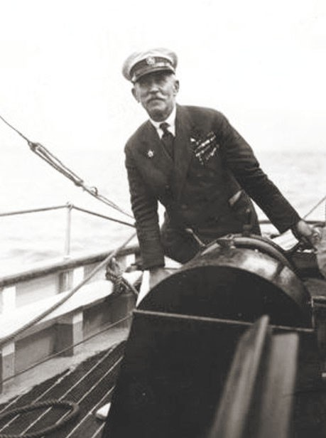 Mariusz Zaruski (1867-1941) on the board of "Zawisza Czarny" yacht